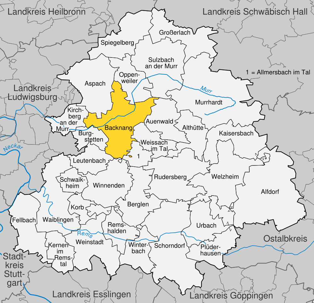 position of Backnang within the Rems-Murr-Kreis, Baden-Württemberg, Germany